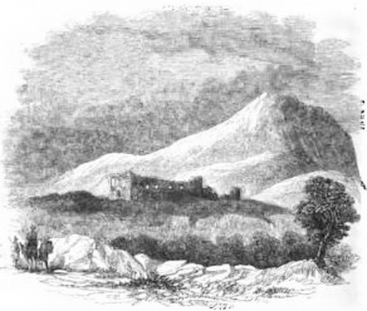 Gigantic church in ruins p42-70djvu After a slight lunch we took our guns, and, walking down to the edge of the table land, saw, what had attracted our attention at a great distance, a gigantic church in ruins. It was seventy-five feet front and two hundred and fifty feet deep, and the walls were ten feet thick. The façade was adorned with ornaments and figures of the saints, larger than life.